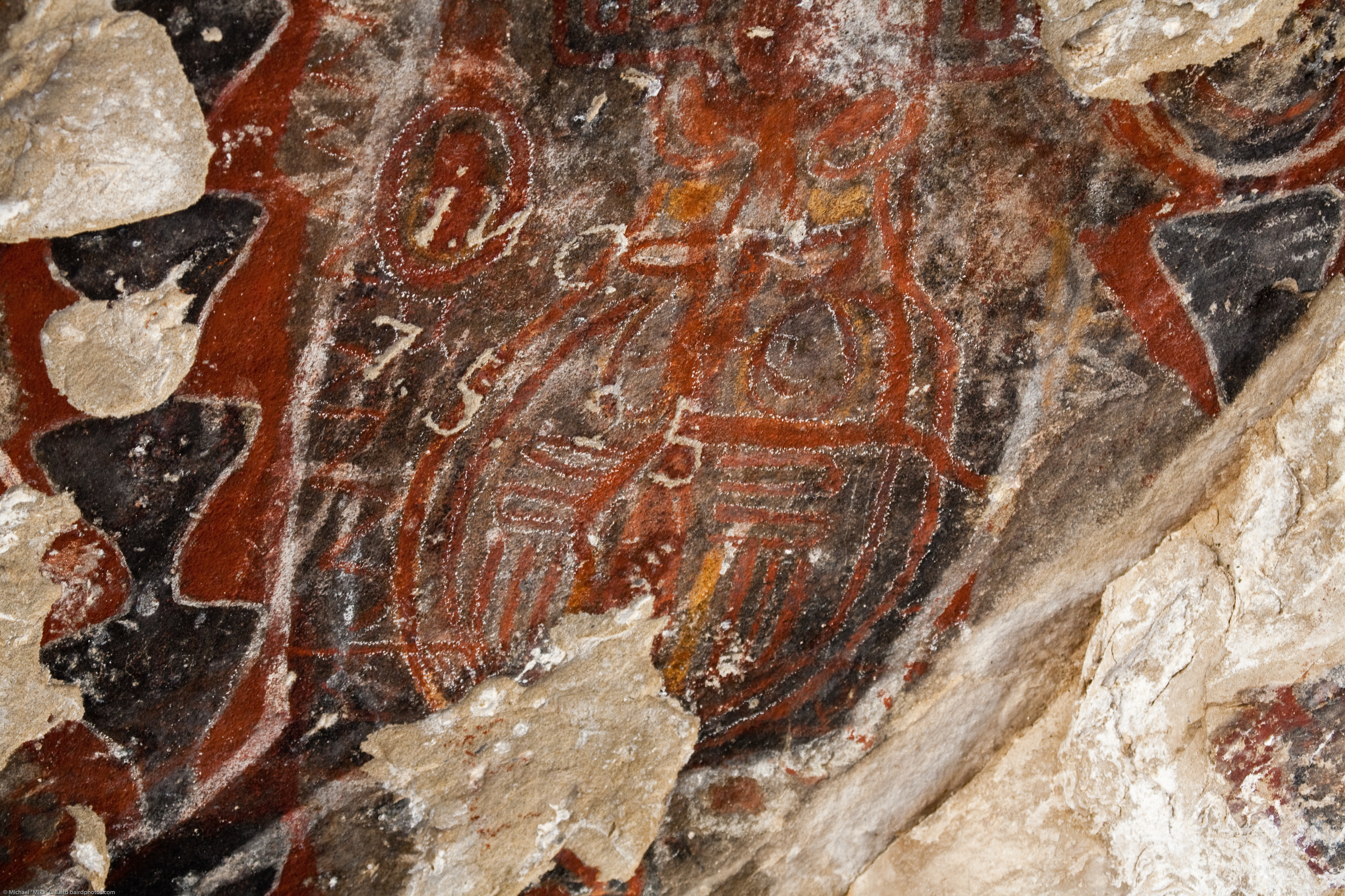 Pictographs on Painted Rock at the Carrizo Plain National Monument, on BLM property near Soda Lake. Photos by Michael "Mike" L. Baird, mike at mikebaird d o t com, ; close-ups Canon 5D 100-400; wides Nikon P6000 w/ built-in GPS.